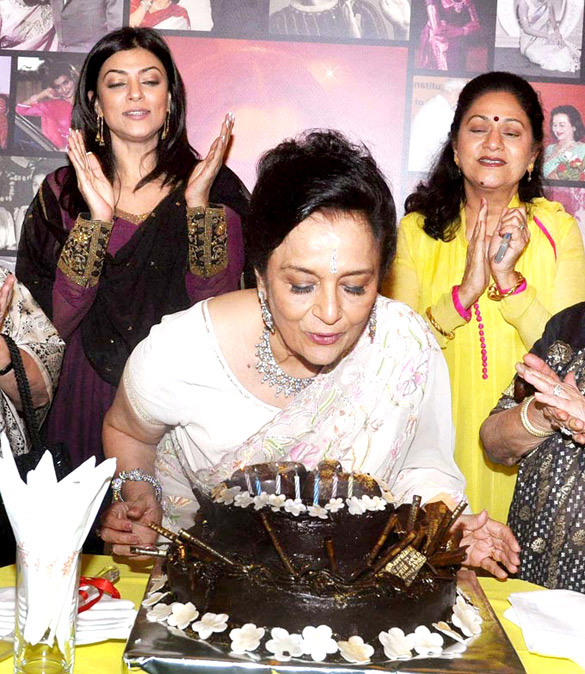 Asha Parekh on her 70th birthday. Behind, actress Sushmita Sen (in black) and Aruna Irani (in yellow), are seen.